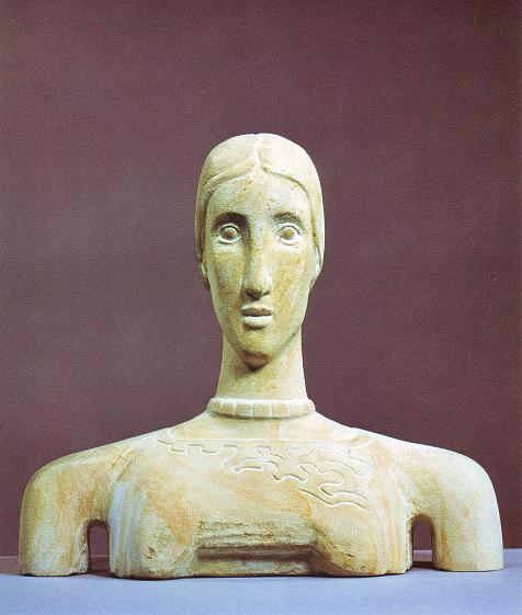 Sculpture „Phönizierin“, created by the sculptress Katharina Szelinski-Singer in 1990, sandstone, 14 x 40 x 14 cm